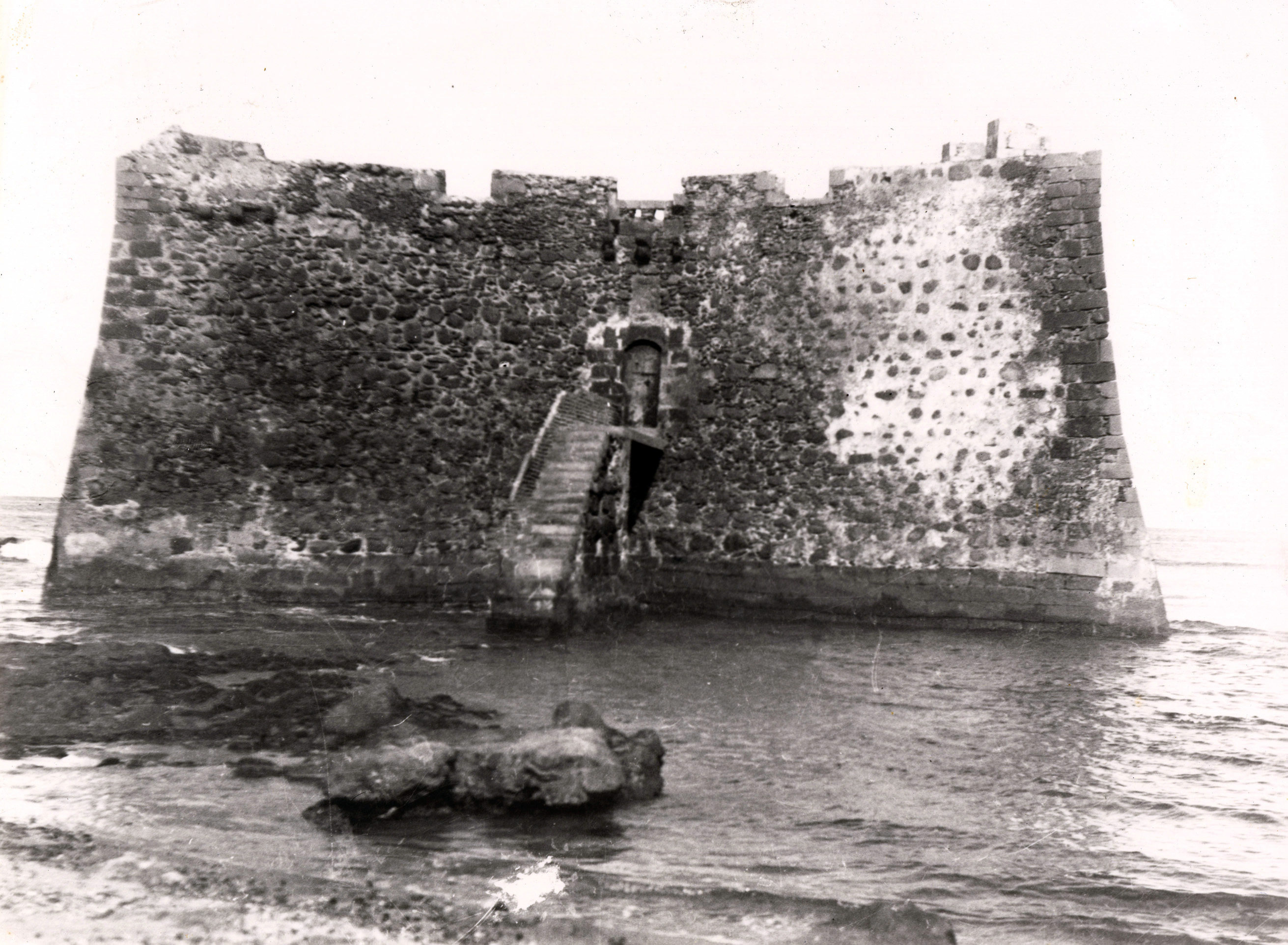 Santa Catalina castle, former maritime defense of Las Palmas de Gran Canaria, today missing. Gran Canaria, Canary Islands (Spain). Author unidentified, year 1920~1922.